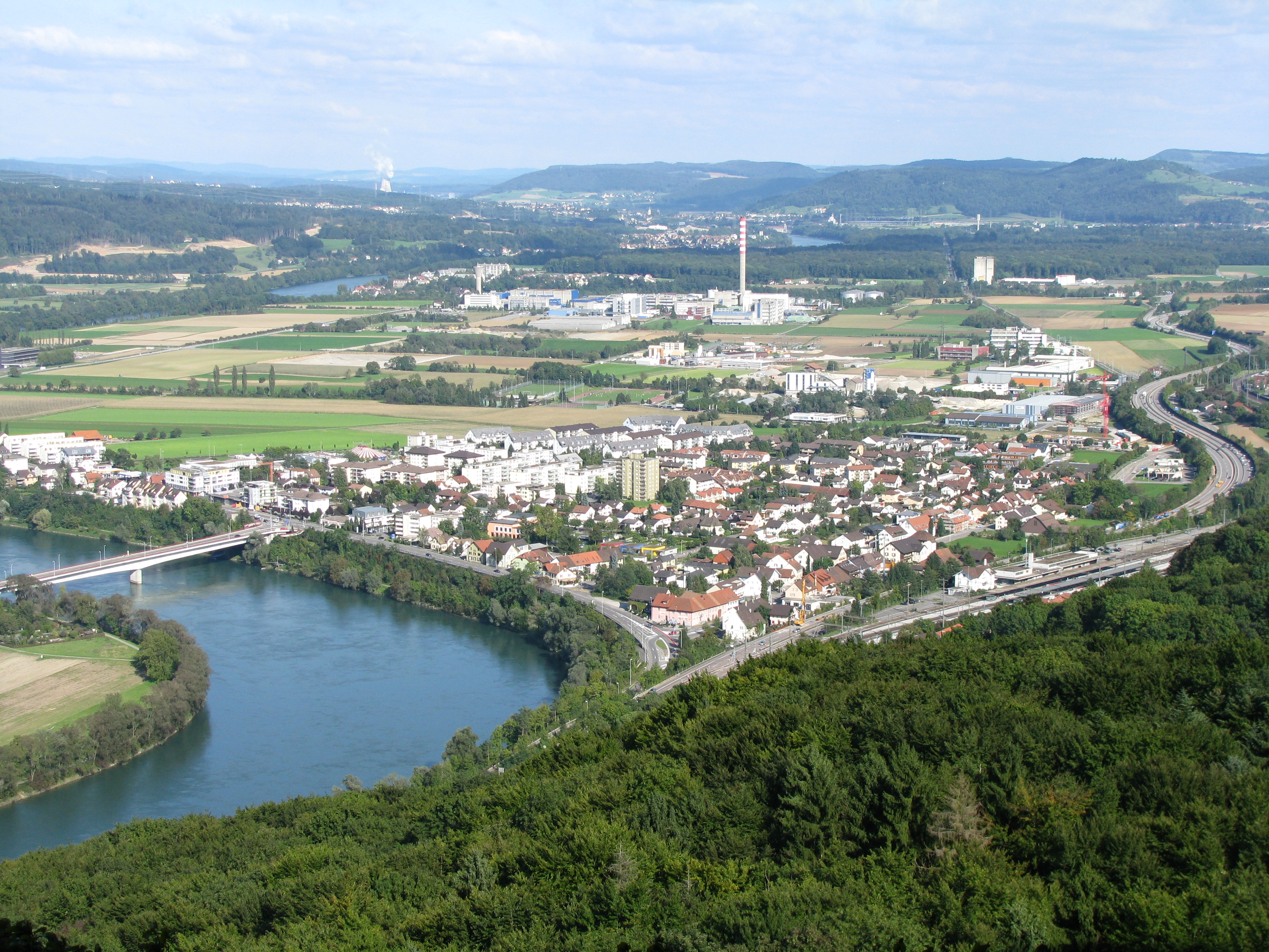 View of Stein, Aargau